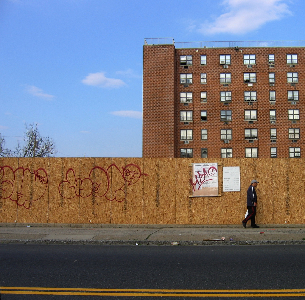 A vacant lot in the shadow of a low income apartment building in Castle Hill.